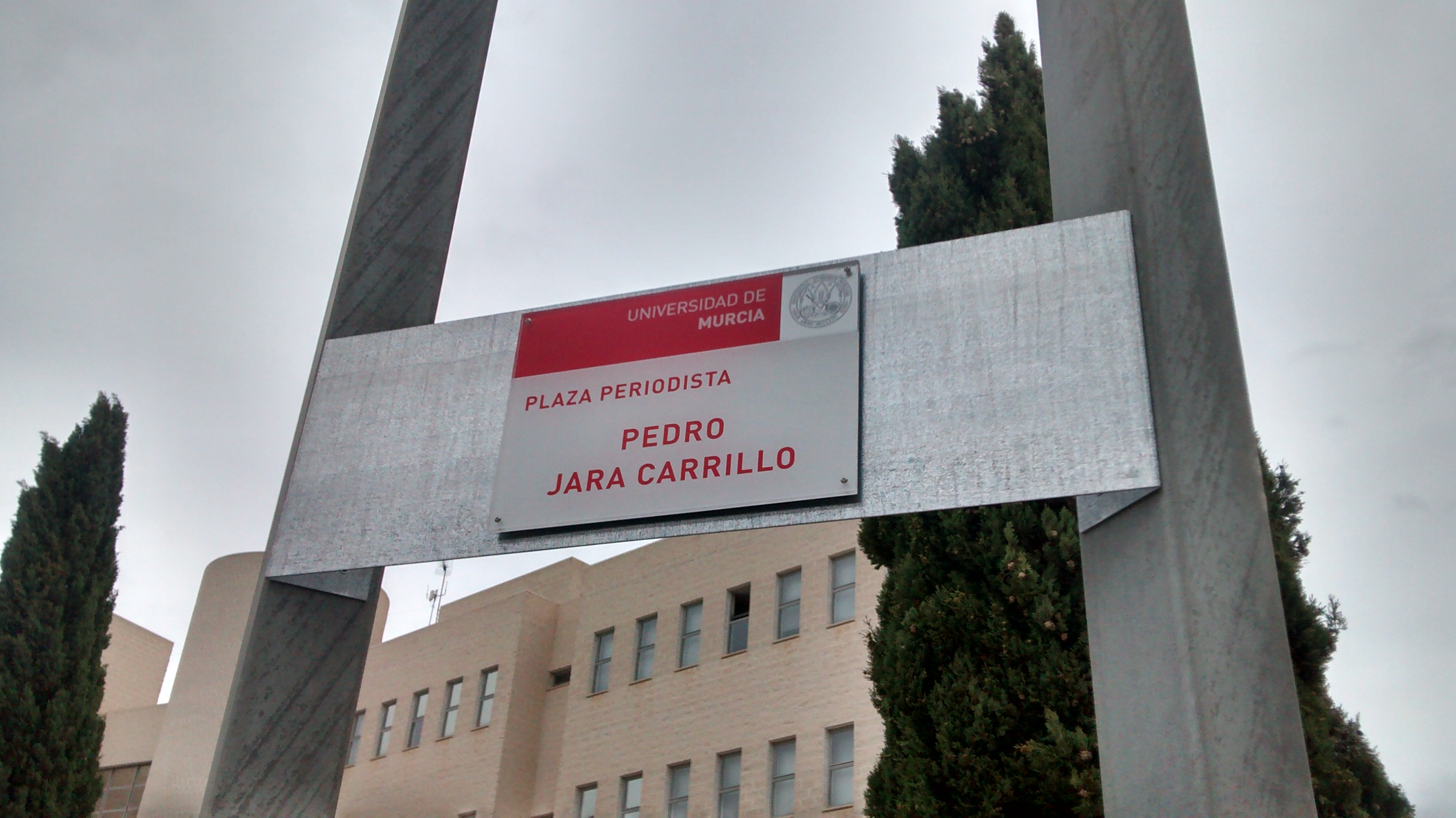 Sign of the Journalista Pedro Jara Carrillo Place at Espinardo Campus of University of Murcia